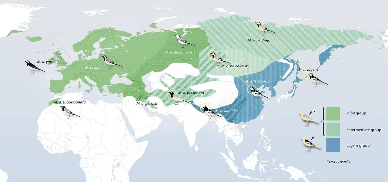 Breeding range and geographical variation of the White Wagtail (Motacilla alba) – eleven subspecies and three subspecies groups based on the color of the back and head patterns in male breeding plumage